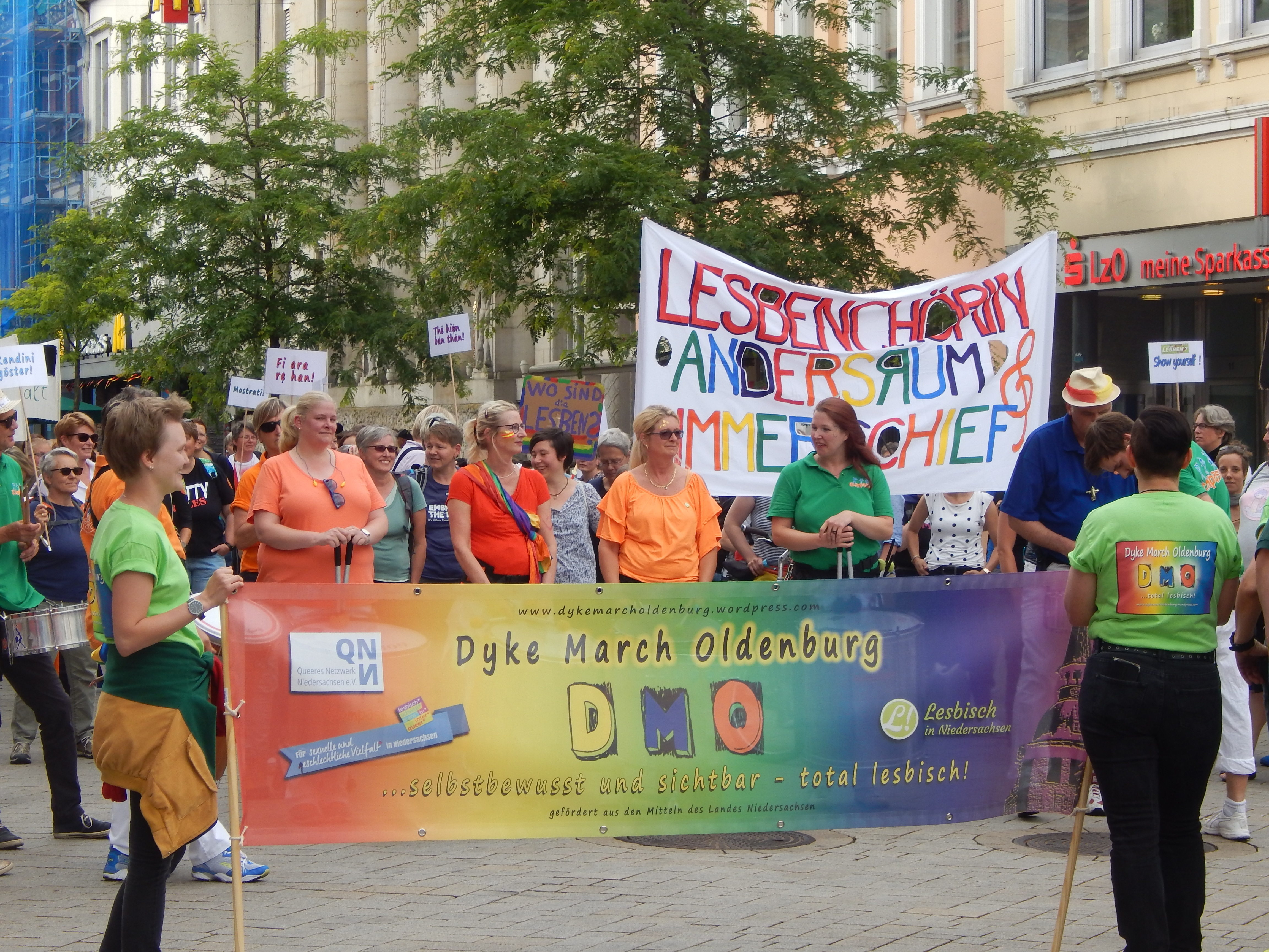 First Dyke March in Oldenburg (Oldb), Germany, 2018